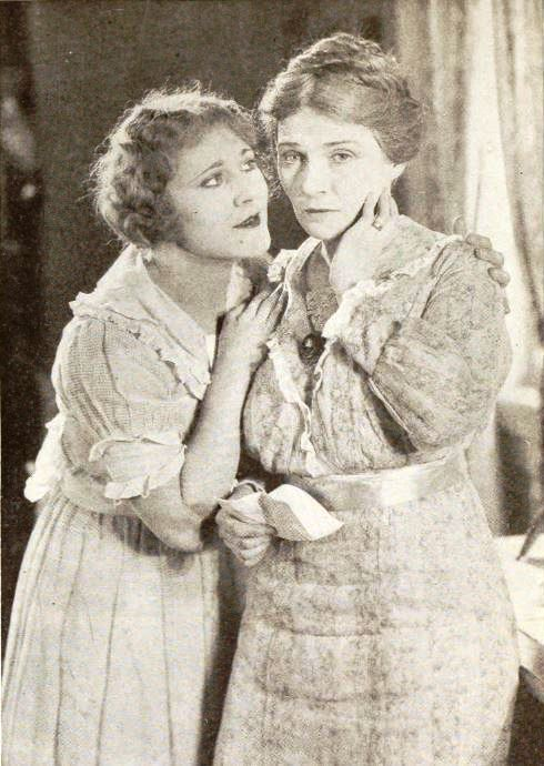 Still from the American drama film The Old Nest (1921) with Louise Lovely and Mary Alden, from page 35 of the September 1921 Photoplay.